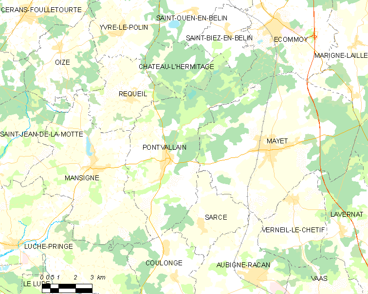 Map of French municipality